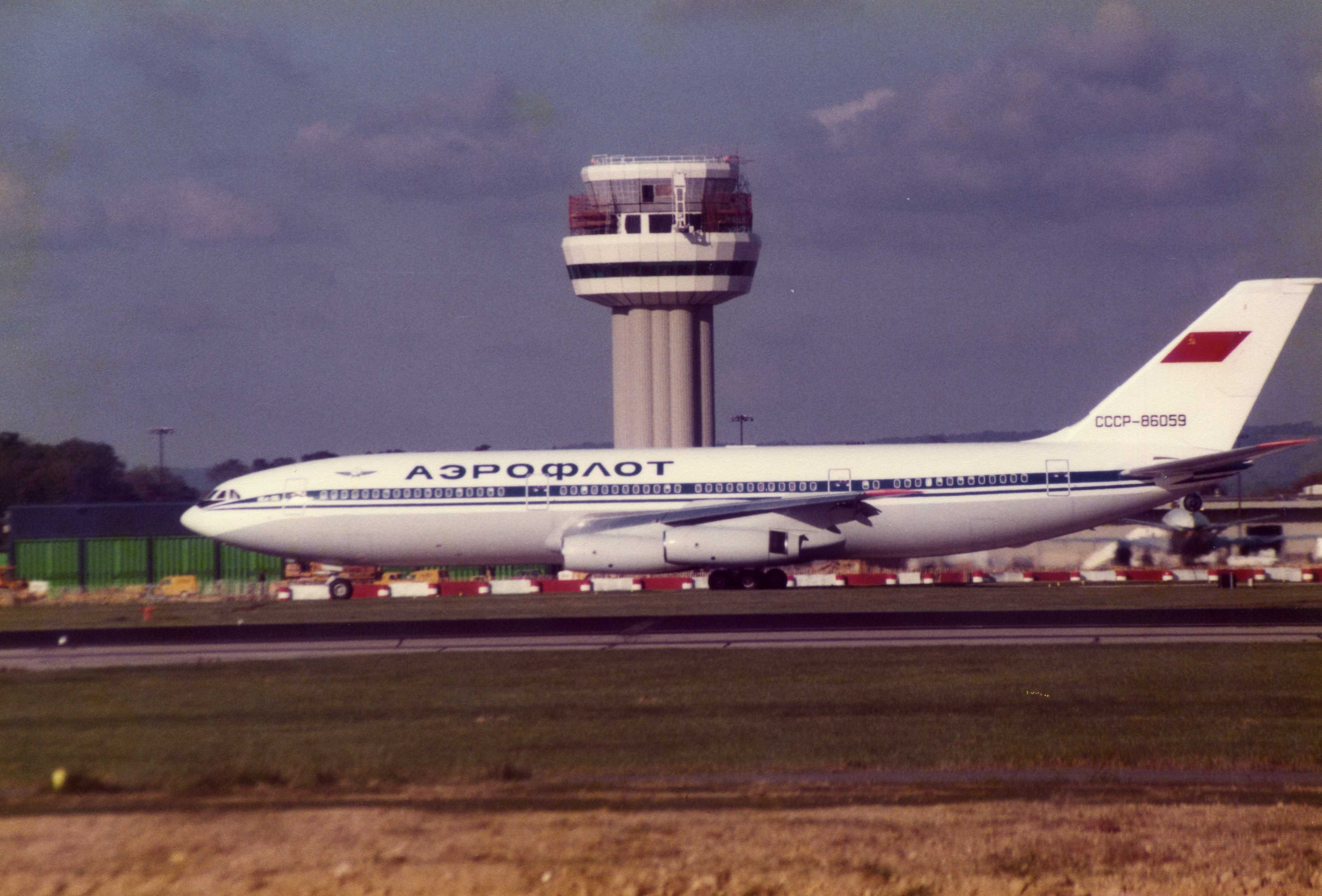 Aeroflot Ilyushin Il-86 at London Gatwick Airport